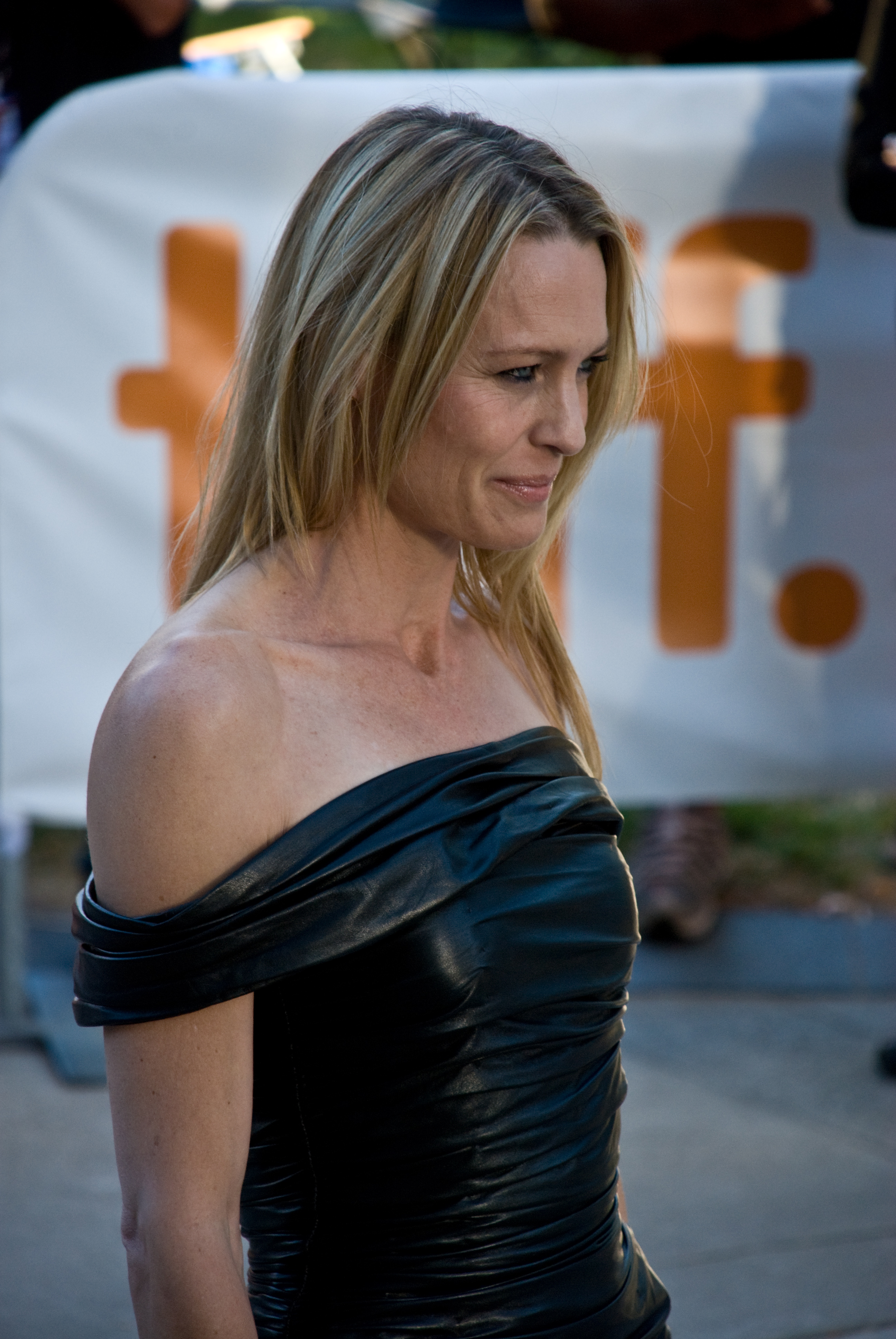 Robin Wright Penn at the premiere of The Private Lives of Pippa Lee at the 2009 Toronto International Film Festival